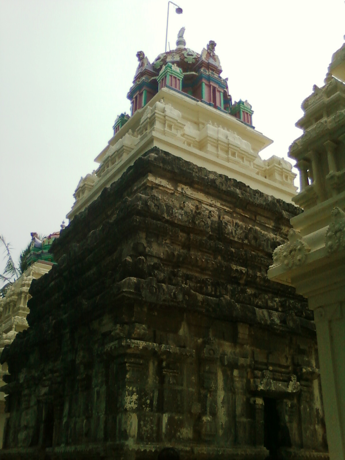 Andhra Maha Vishnu Temple (rear view) in Srikakulam Village, Krishna District, Andhra Pradesh